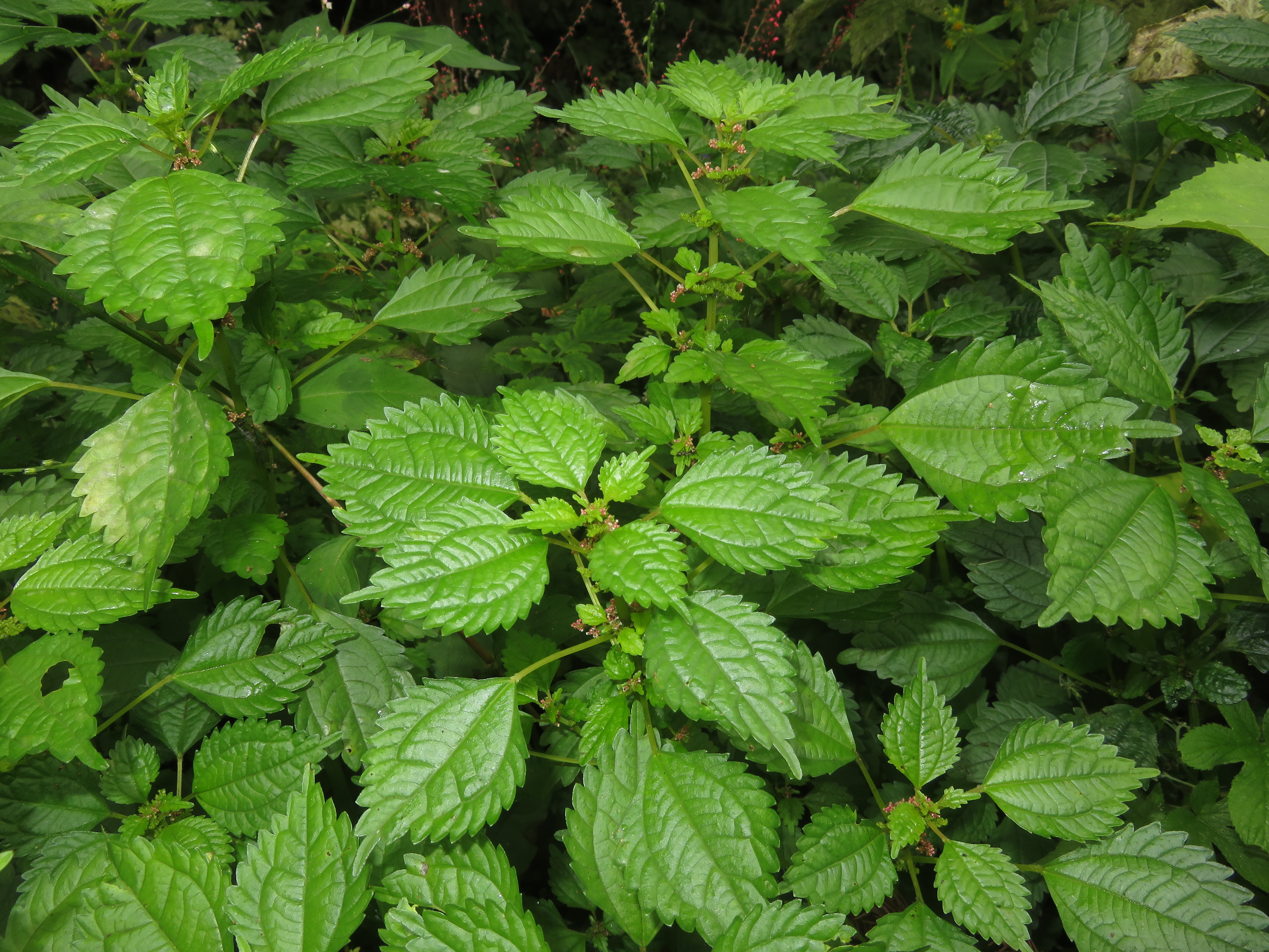 Pilea pumila, Aizu area, Fukushima pref., Japan